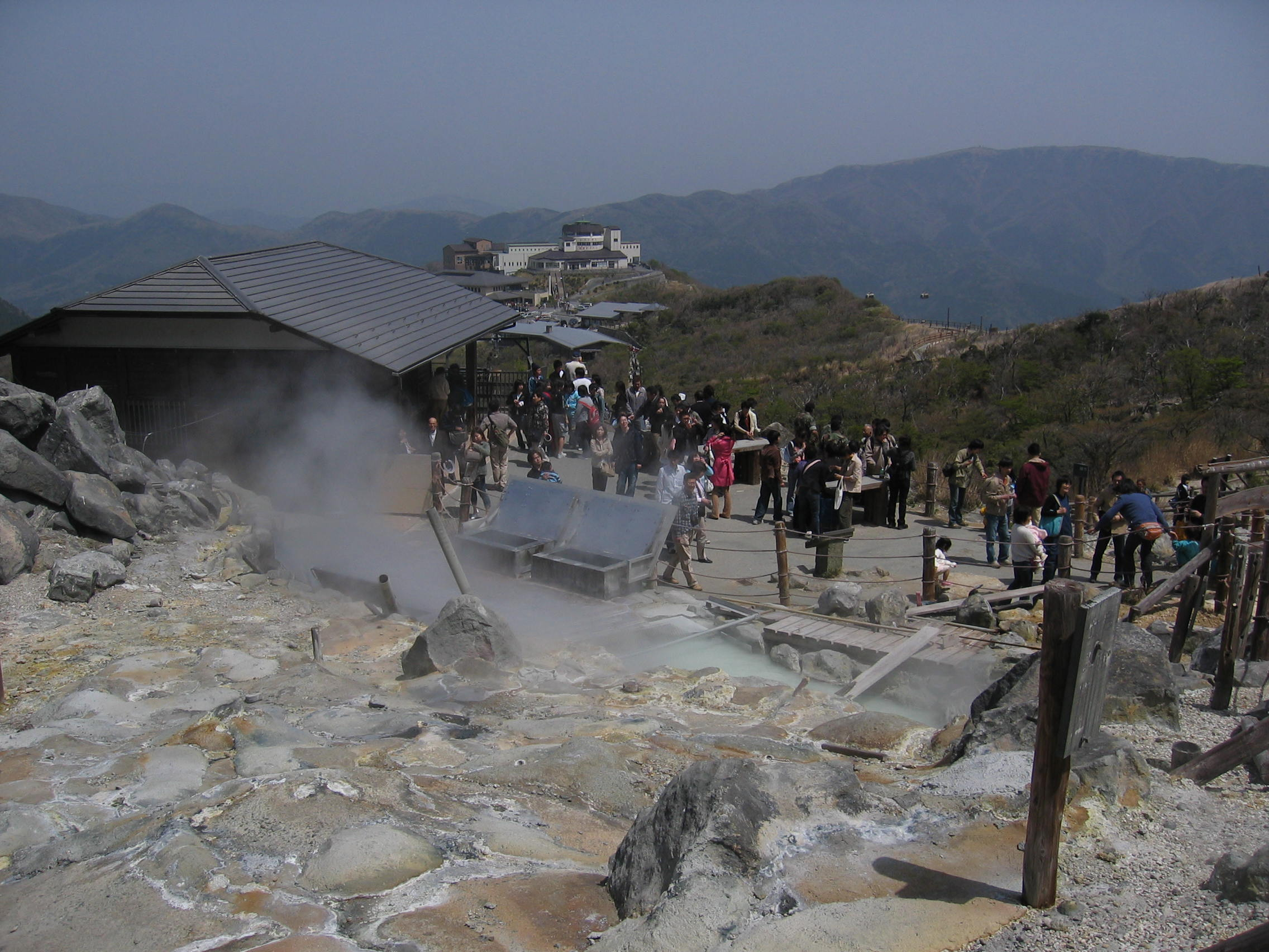 Hakone Owakudani Kuro-tamago-chaya and Owakudani station. (2006)